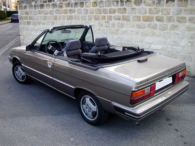 Renault Alliance Convertible (built by AMC)